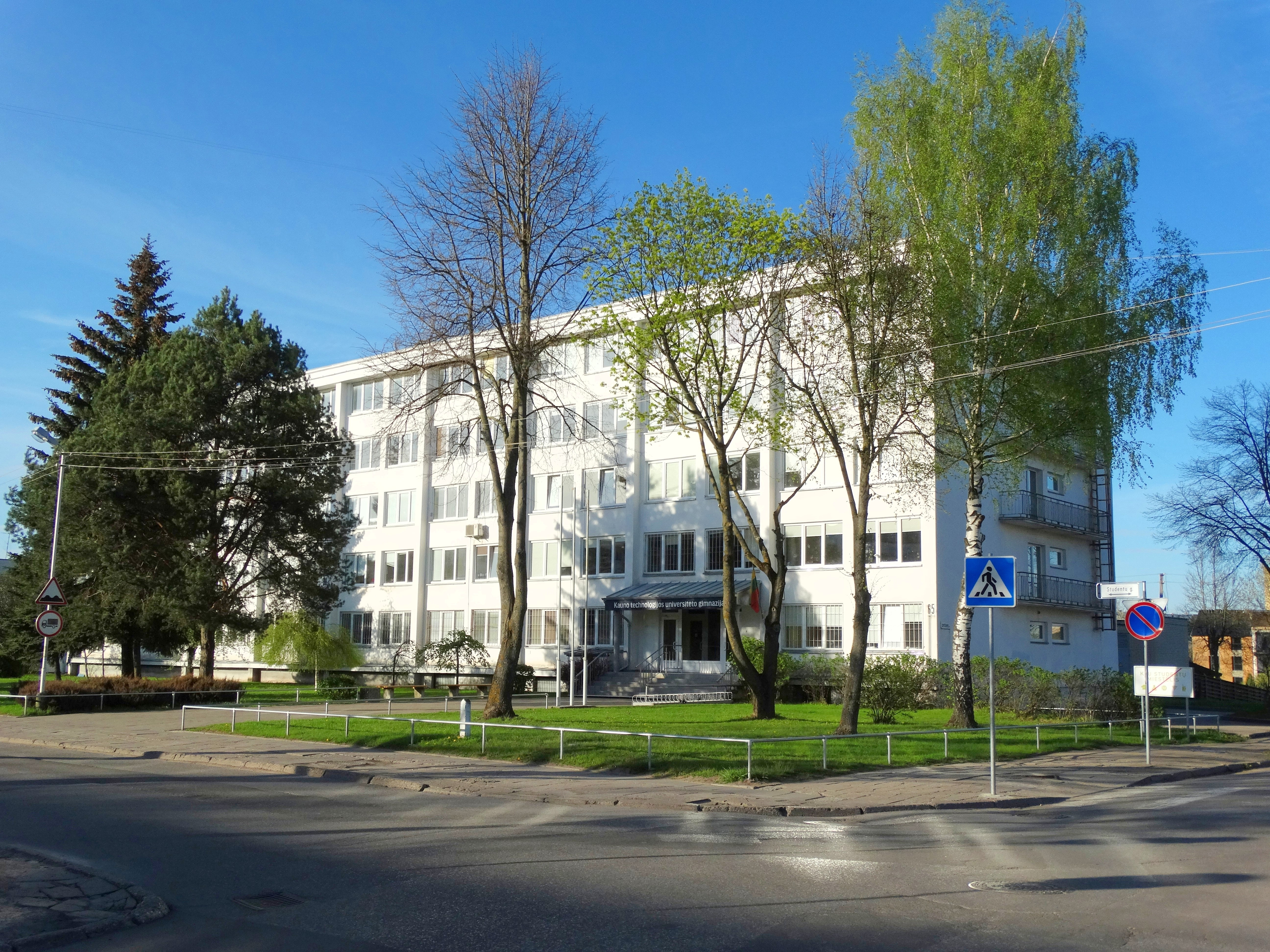 Gymnasium of Kaunas University of Technology, Lithuania